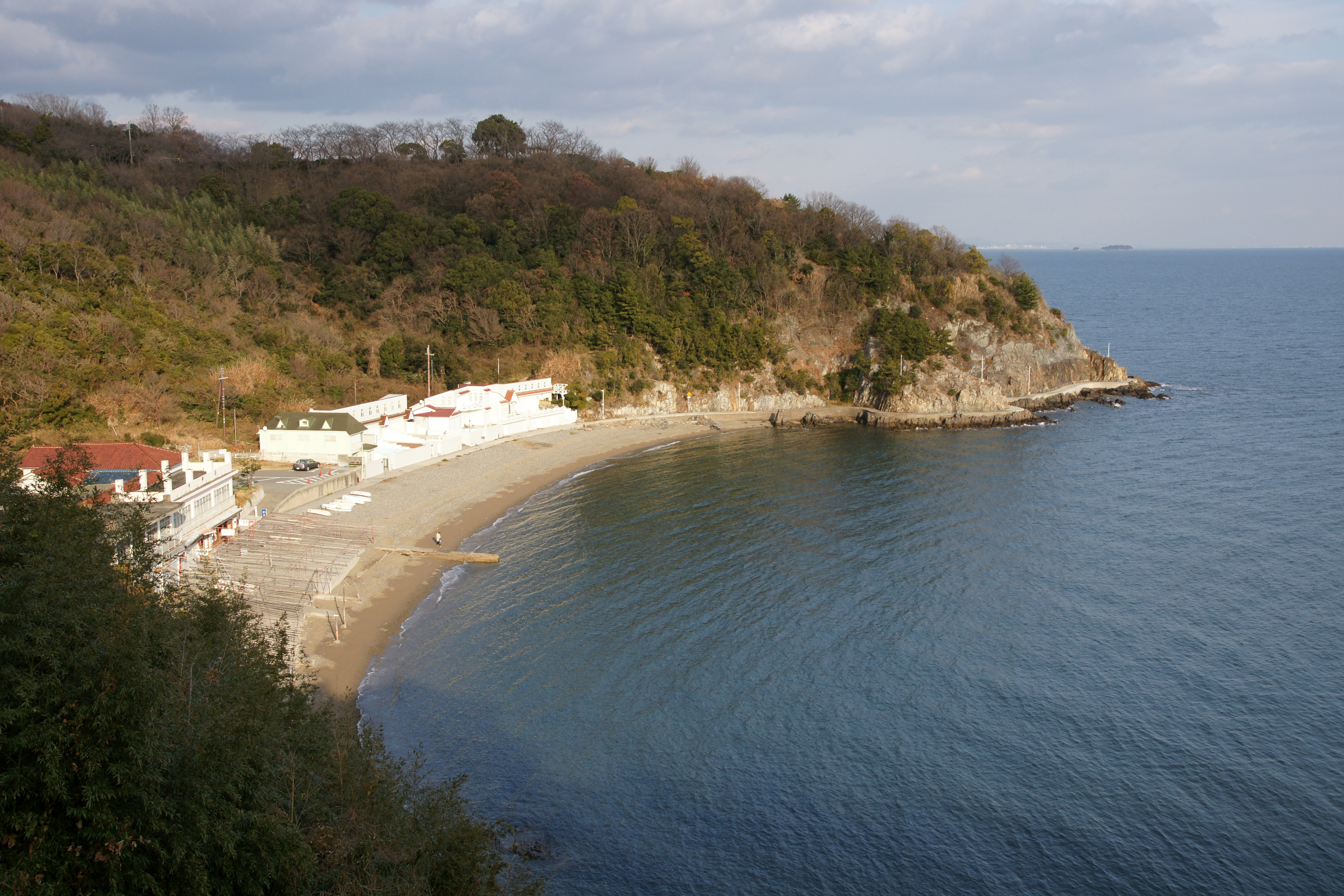 Misaki (Ako Misaki), Akō, Hyogo prefecture, Japan